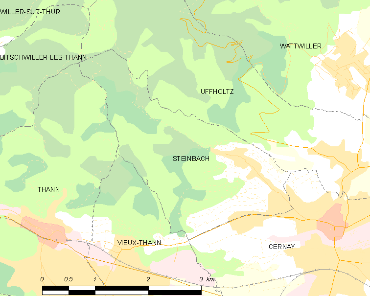 Map of French municipality